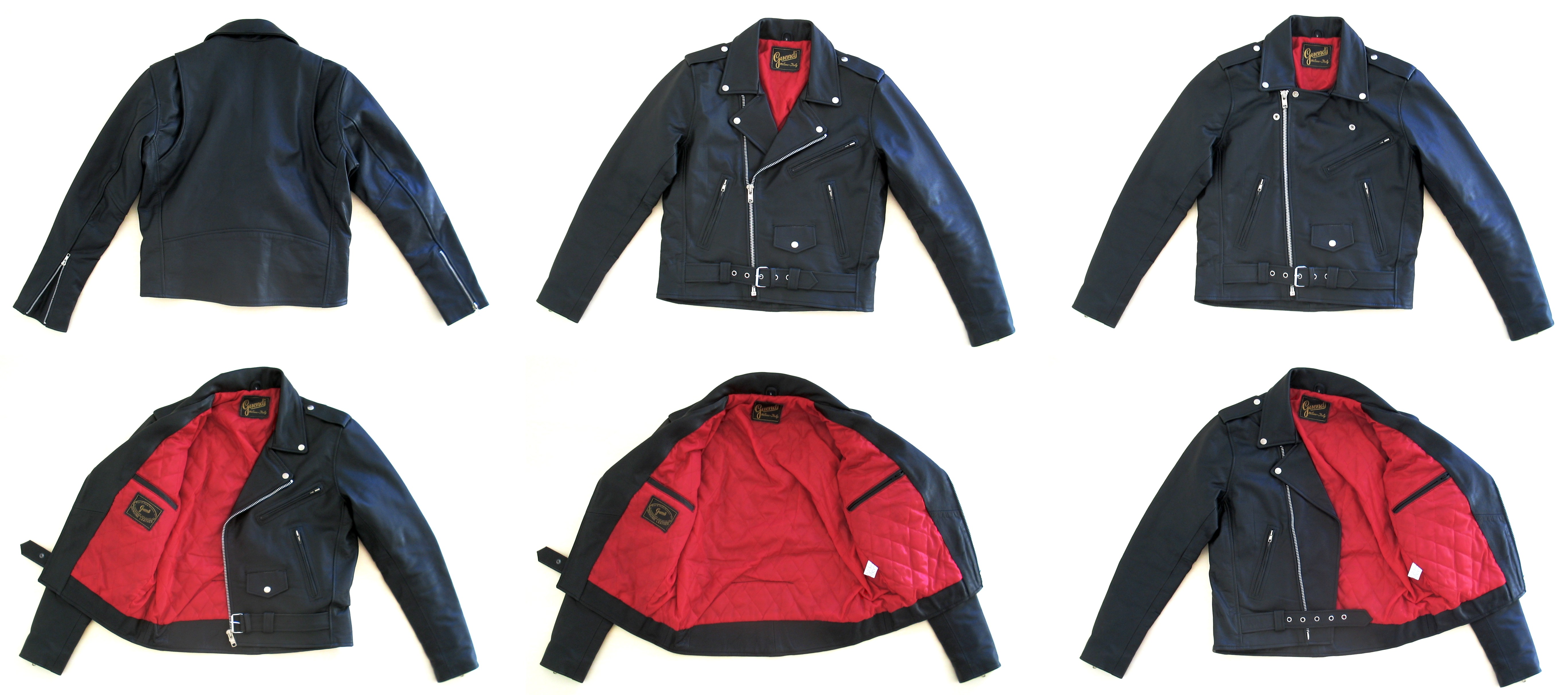 Jacket-style nail, photographed in various positions